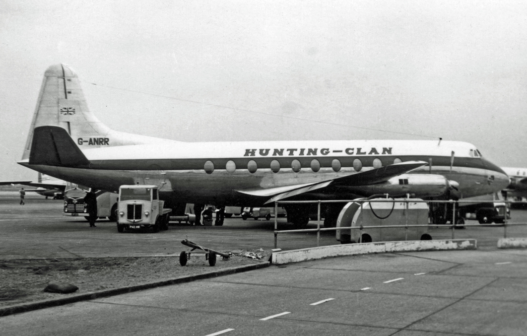 Hunting Clan Air Transport Vickers Viscount 732 G-ANRR at London (Heathrow) North